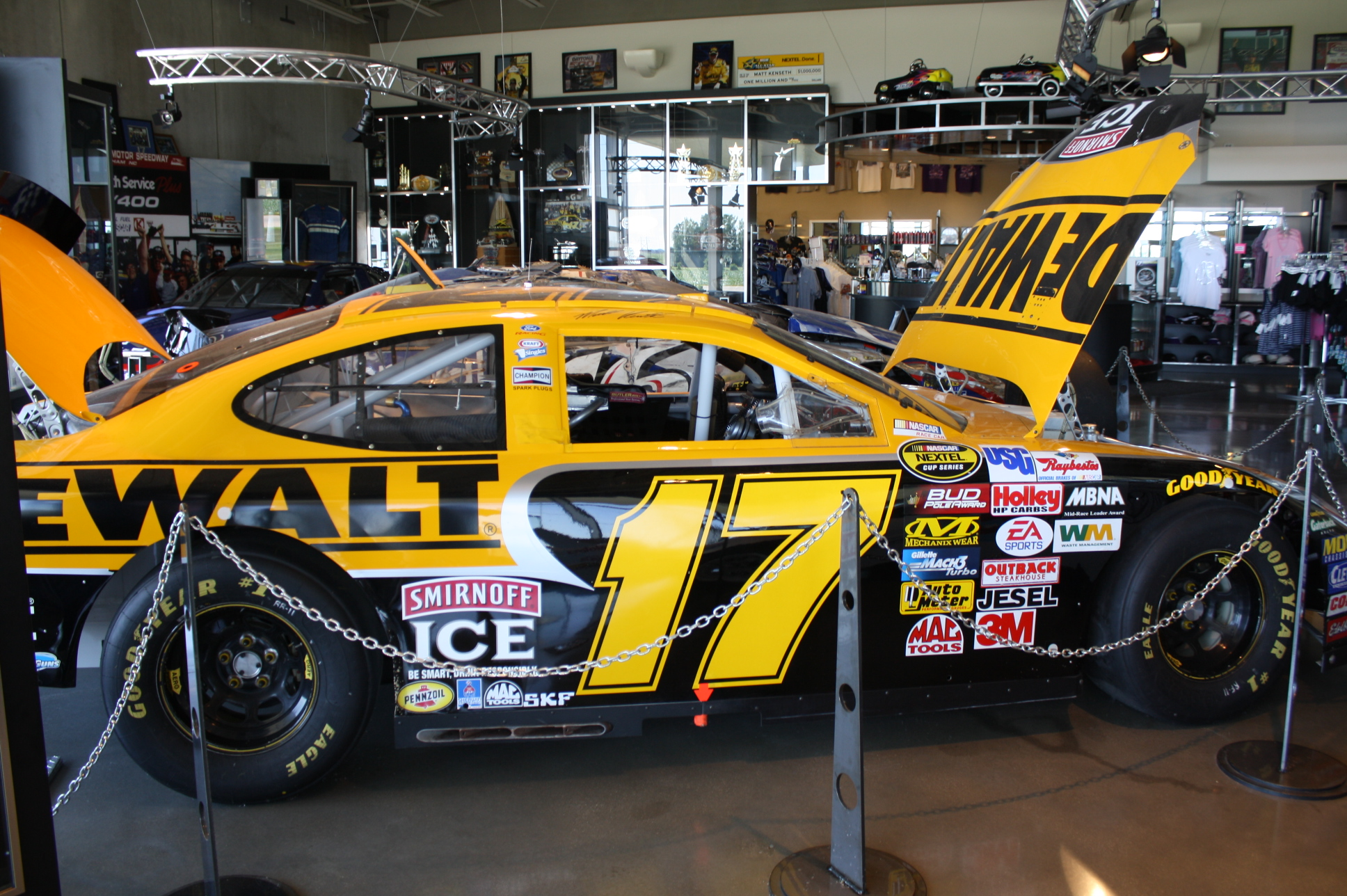 The NASCAR car that Matt Kenseth won his Winston Cup Series title in 2003.